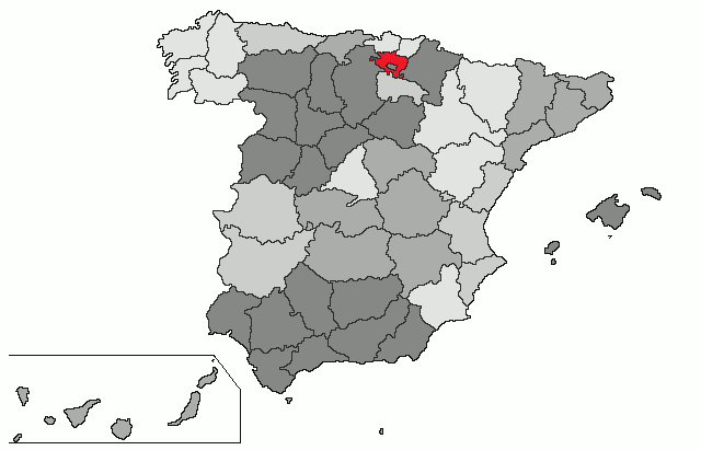 ES: Provincia de Álava EN: Province of Álava Based in: Image:ProvPont.jpg Source: Designed by Leoplus. Original picture, designed by Sobreira.